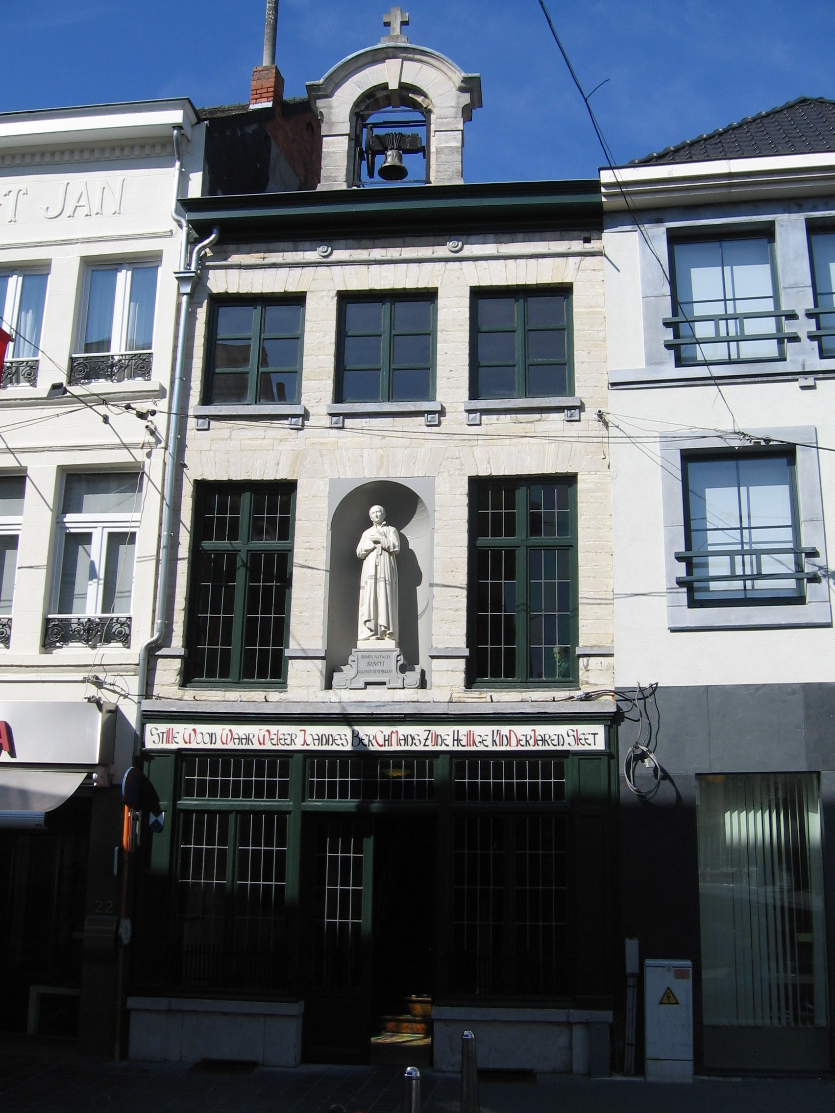 The house where John Berchmans was born, in Diest, Belgium